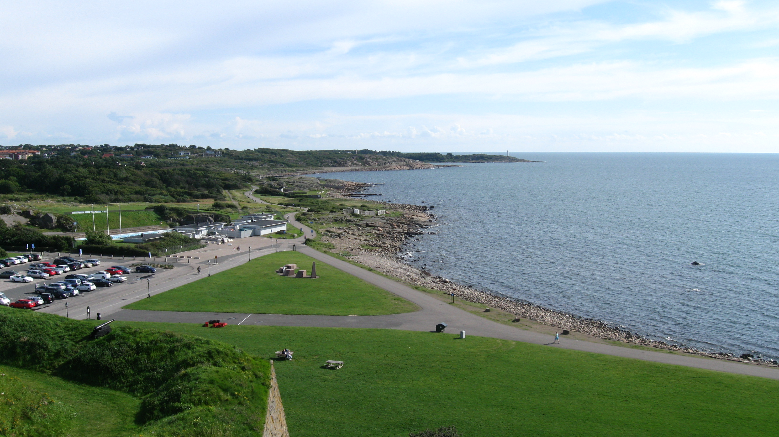 The view from the hill where the fortress is situated